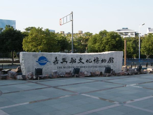 Jiaxing ship museum